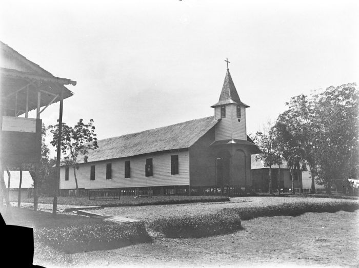 The church of the Missionaries of the Holy Family at Laham